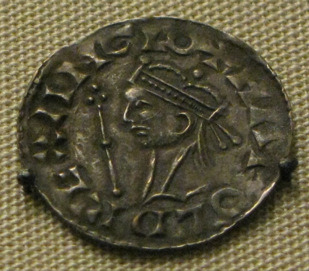 Silver coin of Harold Godwinson (son of Earl Godwin of Wessex and last Anglo-Saxon king of England). Coin is property of the British Museum.